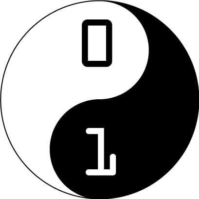 Ying and Yang symbol with a 1 and a 0